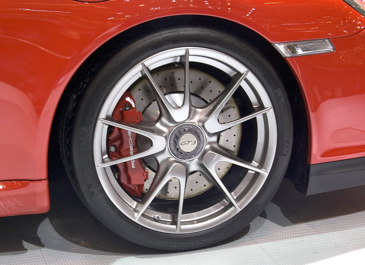 2009 Porsche 911 GT3 (997) 19-inch wheel with central locking device.